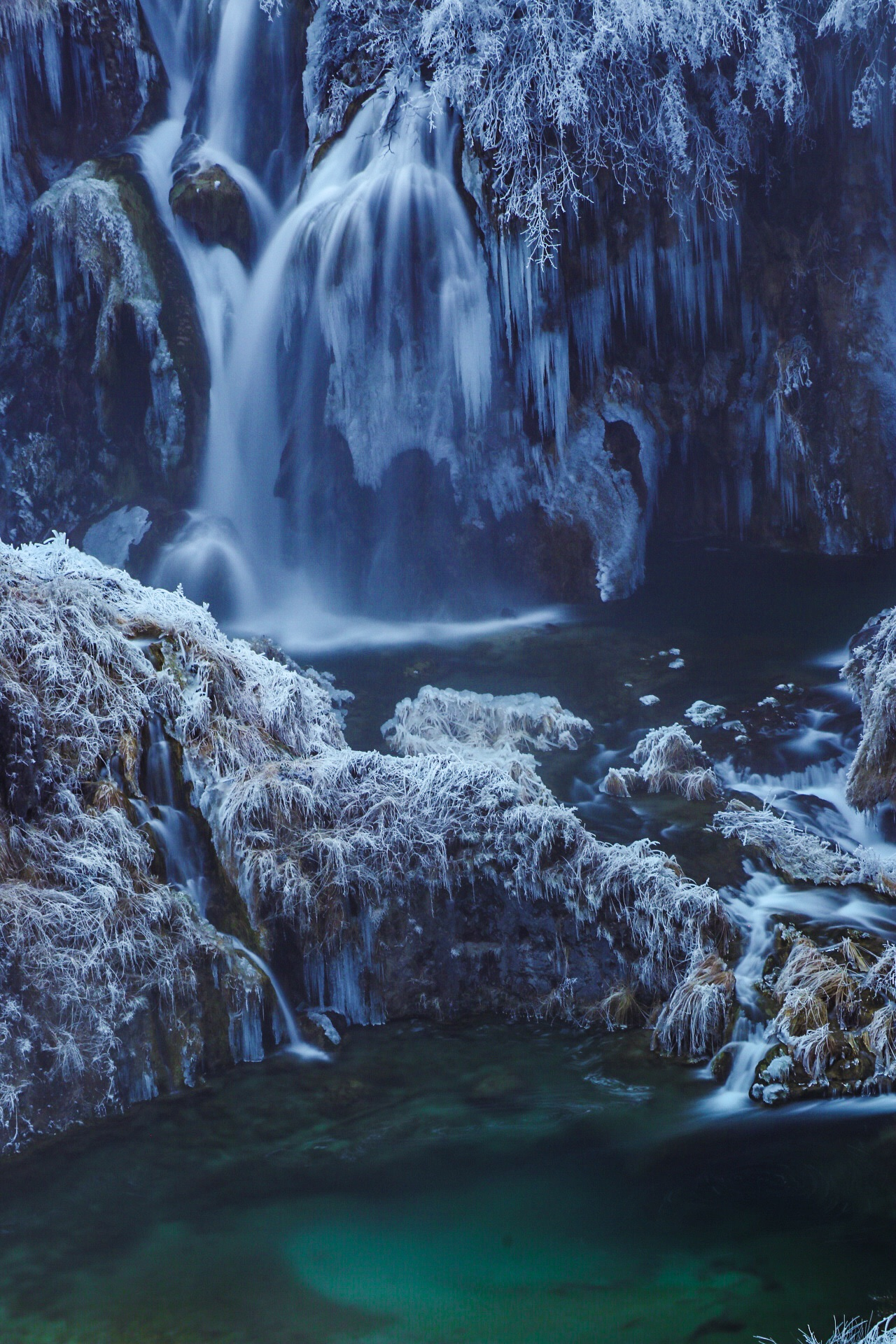 " Winter Wonderland "Plitvice National Park in December 2016